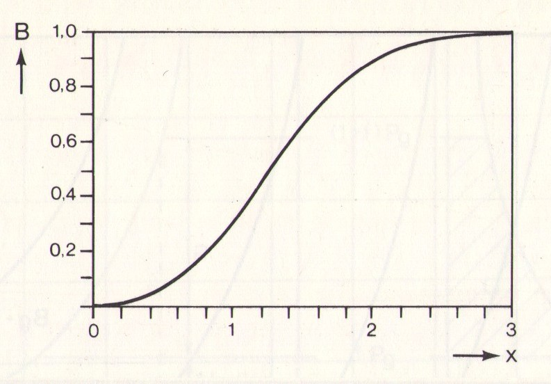 To calculate the energy production of a wind turbine.